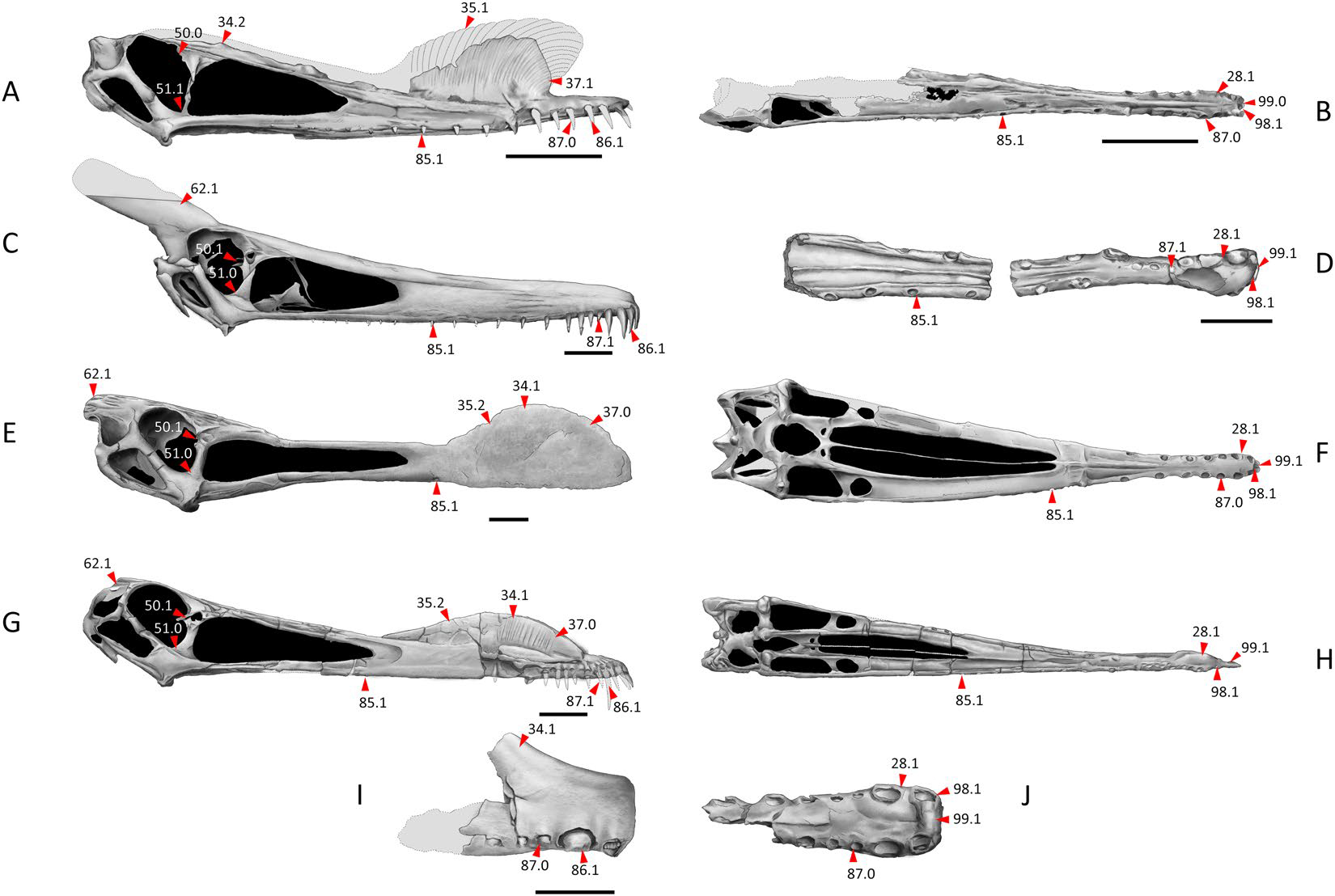 Skull characters of species from different lineages within Anhangueria. Each skull is based on theholotypes and paratypes (dark grey), and elements from other specimens (light grey) re-marked with brokenlines. Hamipterus tianshanensis (IVPP V 18935.1), in righ lateral view (A) and palatal view (B) Ludodactylussibbicki (specimen stored at the Staatliches Museum für Naturkunde Karlsruhe, Karlsruhe, Germany (SMNK),SMNK PAL 3828), in right lateral view (C) Caulkicephalus trimicrodon (specimen stored at the Isle of WightCounty Museum Service, Sandown, Isle of Wight, England, United Kingdom (IWCMS), IWCMS 2002.189),in palatal view (D) Tropeognathus mesembrinus (specimen stored at the Bayerische Staatssammlung fürPaläontologie und Geologie, Munich, Germany (BSP), BSP 1987 I 46), in right lateral view (E), and palatal view(F); Anhanguera blittersdorffi (MN 4805-V), in right lateral view (G), and palatal view (H) and Uktenadactyluswadleighi (specimen stored at the Southern Methodist University, Dallas, Texas, United States (SMU), SMU73058), in right lateral view (I), and palatal view (J). Arrows show the character states in each skull. Scale bar5 cm. See the Supplementary Information for details about number and state of characters.